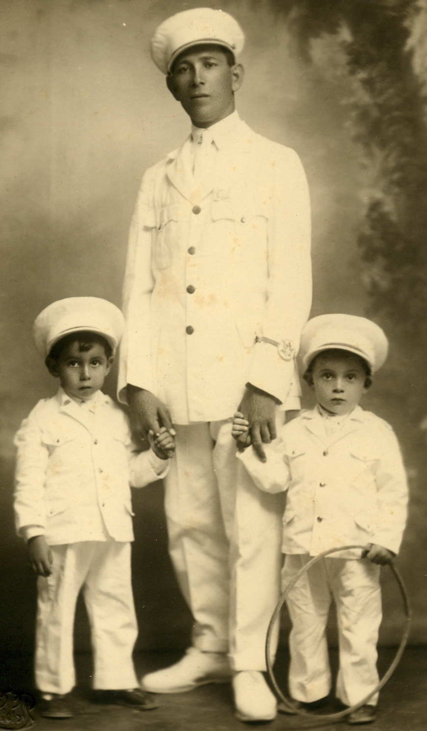 Yosef Yekutieli the founder of the Macabiya games